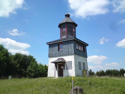 Tower "Sternenberg" (former wind mill).